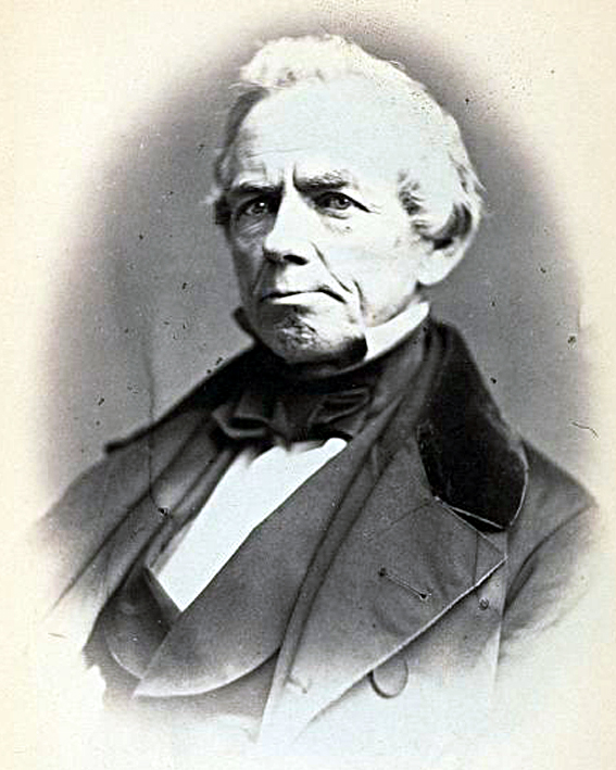 Anthony Ellmaker Roberts, US Representative from Pennsylvania